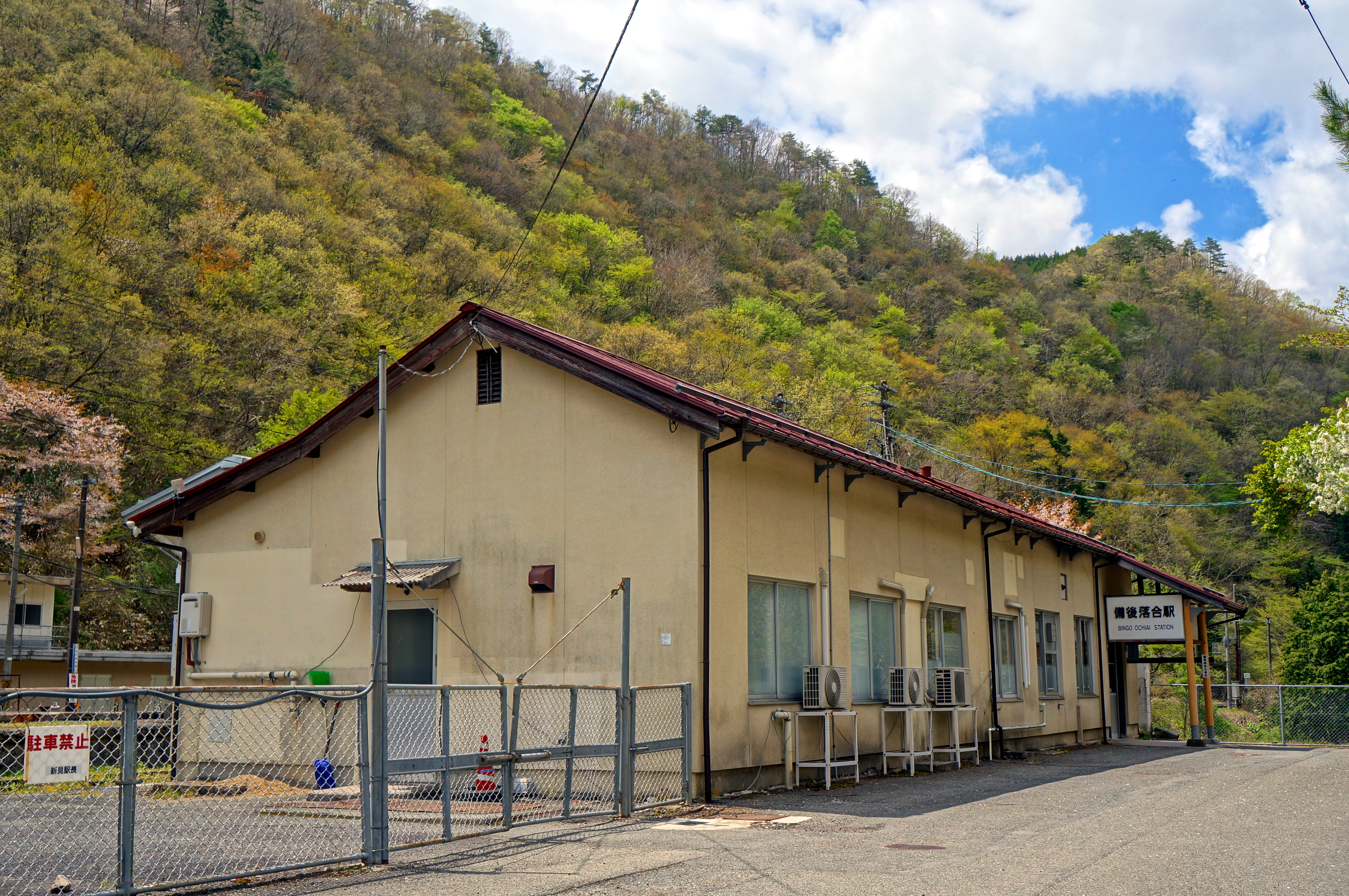 Bingo-Ochiai Station (Shobara, Hiroshima Prefecture, Japan)